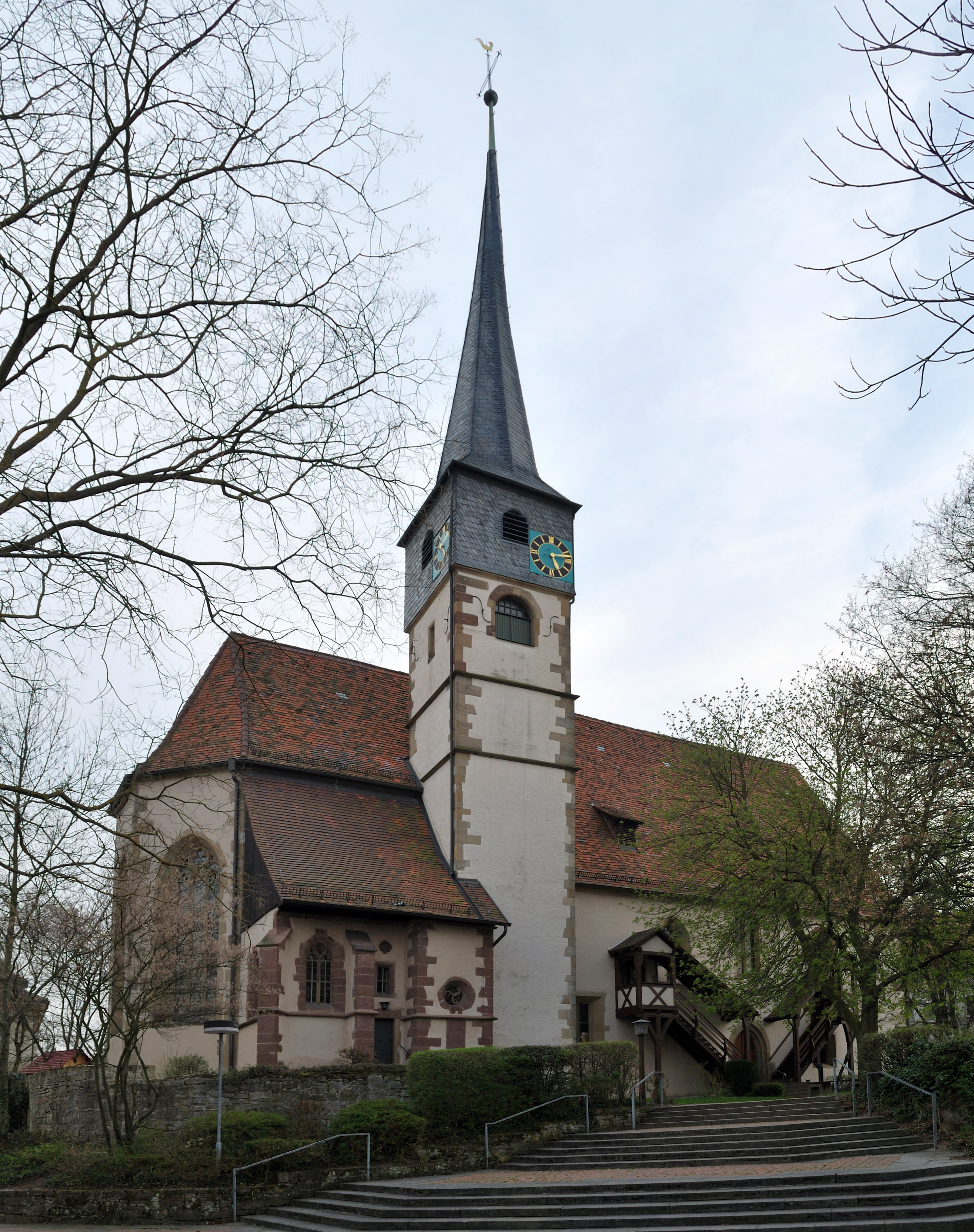 The Konstanz church in Ditzingen in Germany. Panorama view of the north side.